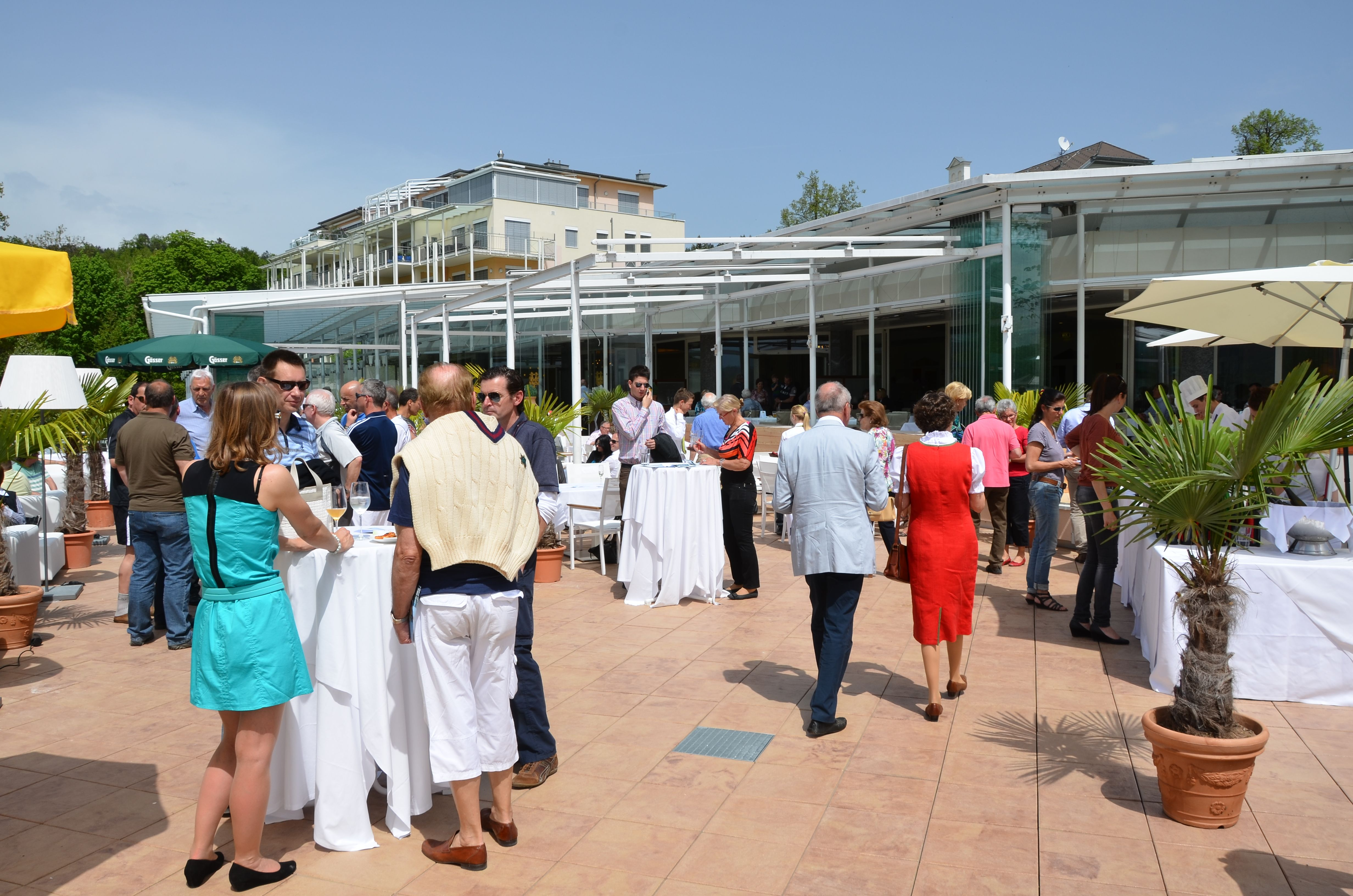 Buffet at the open house of the new Werzer-Bad, Werzer Strand #16, municipality Poertschach on the Lake Woerth, district Klagenfurt Land, Carinthia / Austria / EU